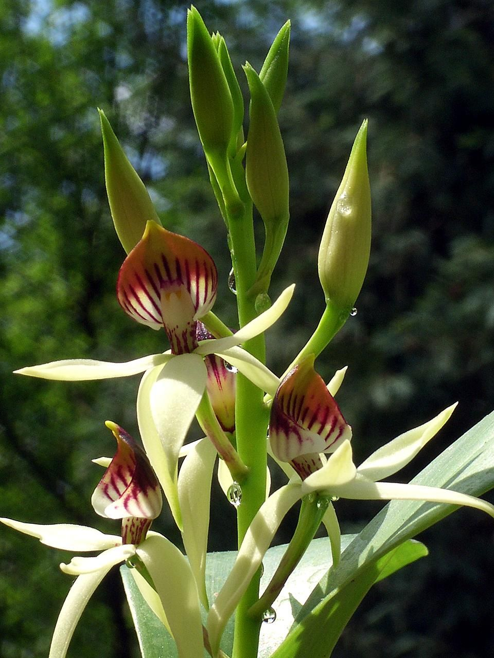 Prosthechea cochleata